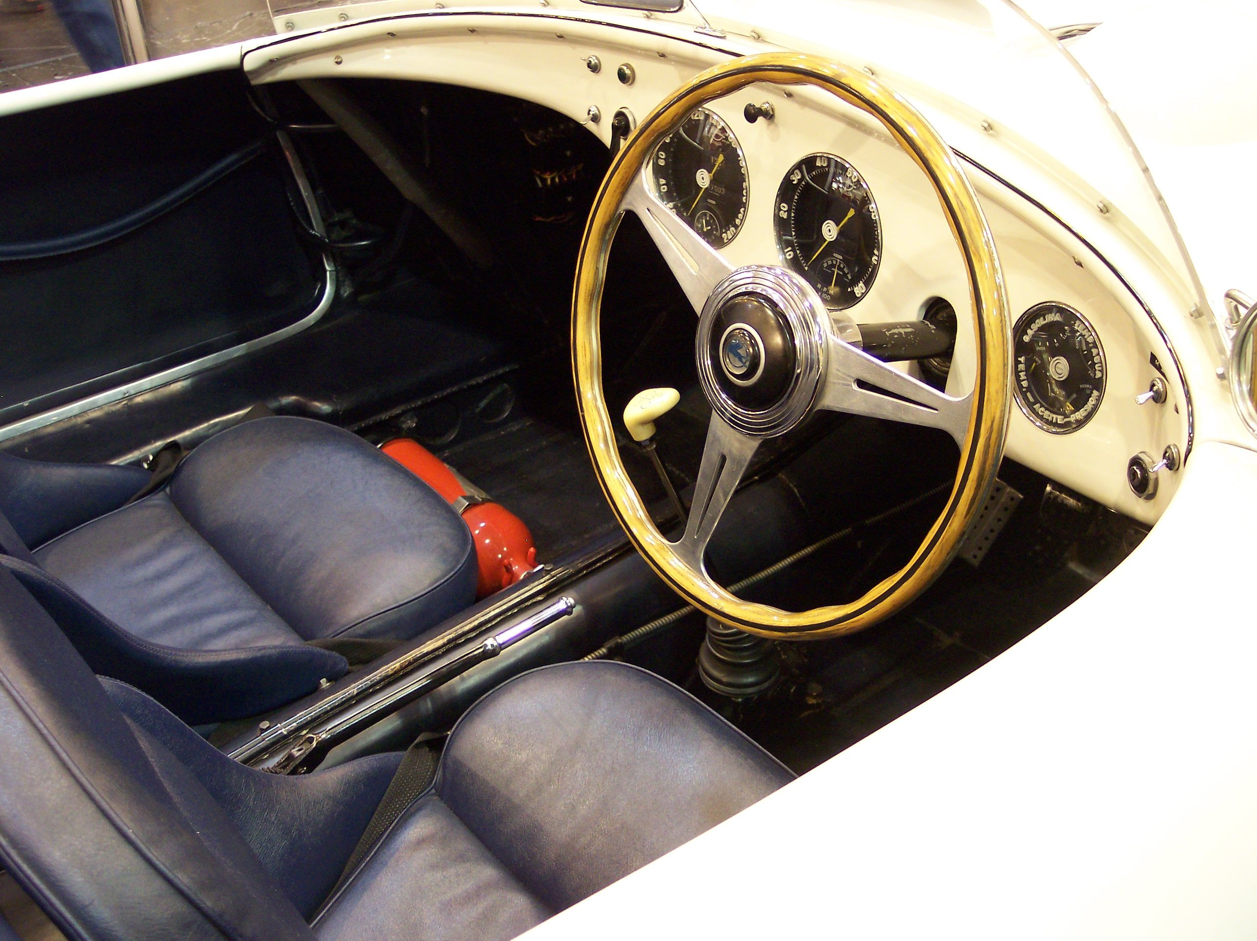 Techno-Classica 2007, Z 102 BS 3.2 Competition Touring Spyder, 198 kw (270 HP) This car is one of three produced cars. After being crashed at Le Mans in 1953, it was repaired at the factory and could participate at races until 1955. In 1963 it was sent to America. The present owner bought it in 1981.